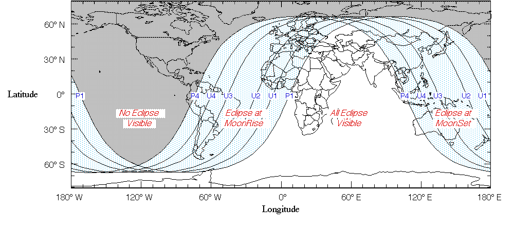 Visibility of the 2011-06-15 lunar eclipse